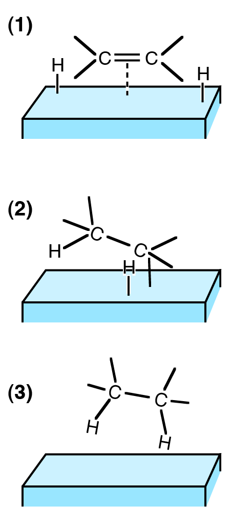 Hydrogenation of a C=C bond on a catalyst: (1) The reactants have adsorbed to the catalyst's surface and H2 has dissociated. (2) An H atom binds to one of the C atoms. The other C atom is bound to the surface. (3) The second C atom binds to an H atom. The molecule leaves the surface.